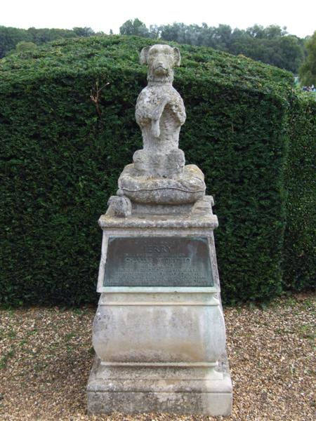 Jerry Charles Wicksteeds constant companion. This statue can be seen in the gardens at Wicksteed Park,along with a monument to the great man himself.